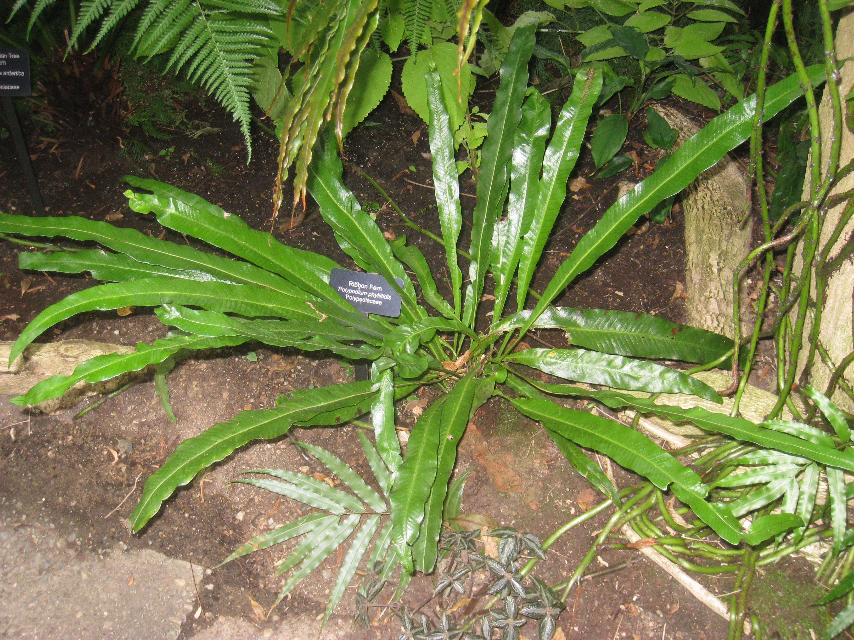 Campyloneurum phyllitidis, formerly Polypodium phyllitidis. Specimen in the conservatory - Matthaei Botanical Gardens, University of Michigan, 1800 N Dixboro Road, Ann Arbor, Michigan, USA.